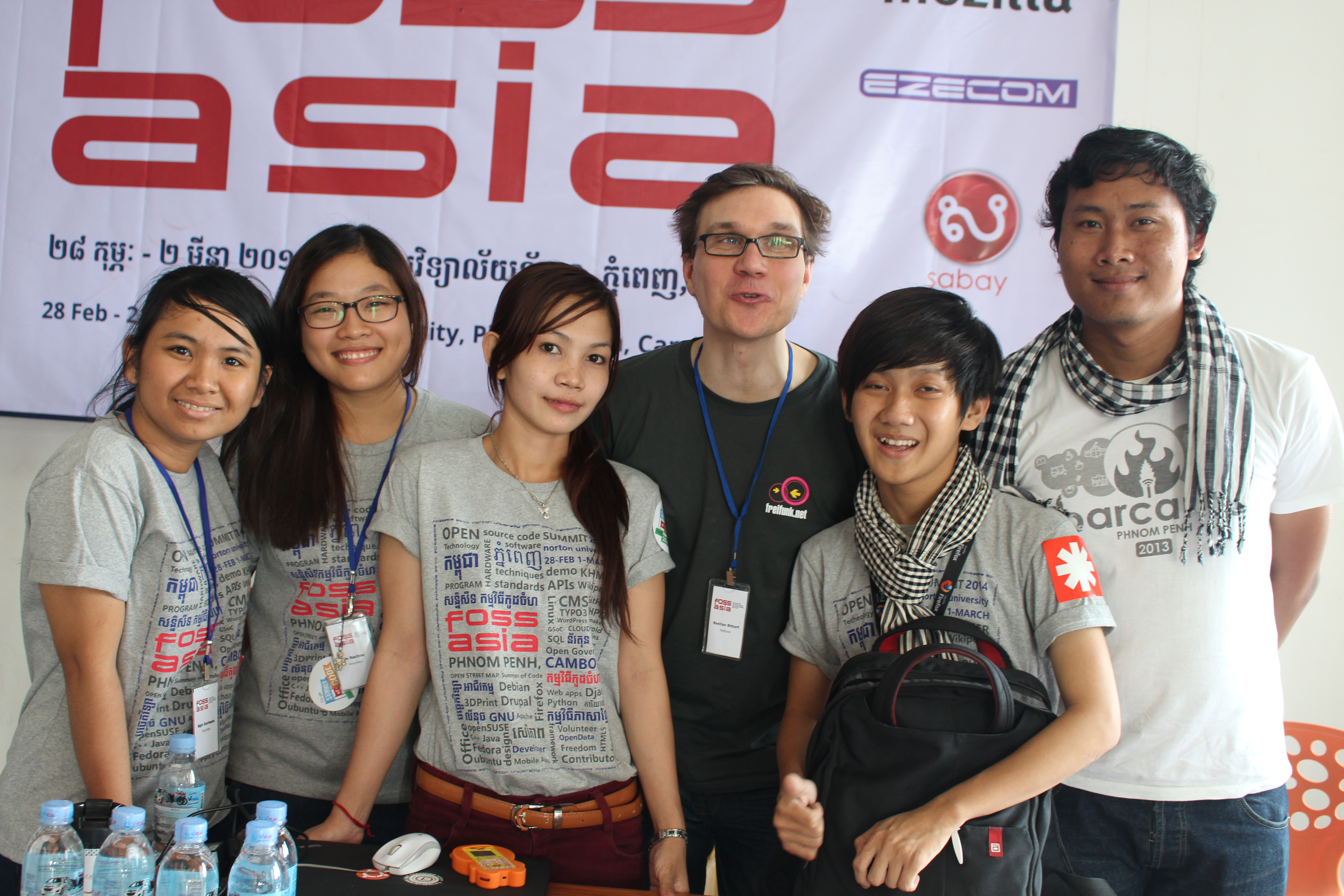 FOSSASIA Volunteers 2014